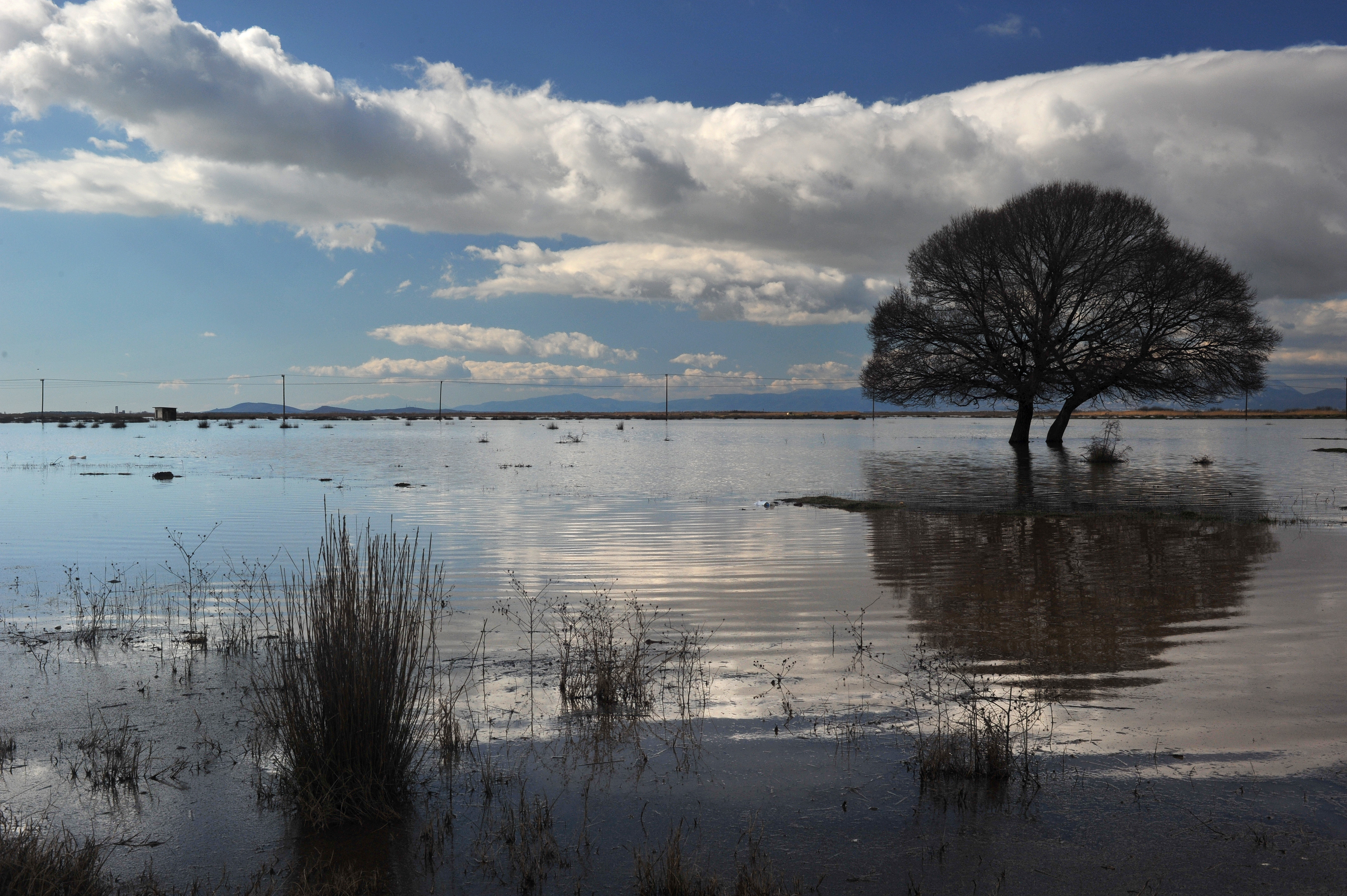 Vistonida lake (flooded), Xanthi Prefecture, Thrace, Greece.